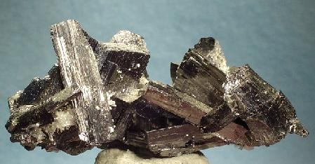 Enargite Locality: Butte, Butte District, Silver Bow County, Montana, USA (Locality at ) Size: 4.7 x 3.0 x 2.5 cm. An aesthetic cluster of splendent, striated, jet-black enargite prisms from Butte. Classic, old-time material. These are really fine and sharp enargite crystals from an old classic locality, certainly 40-60 years out of the ground and almost certainly one of the pieces brought out by the legendary Ed McDole. Ex. George Elling Collection.